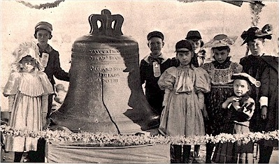 Group of Atlanta school children pose with the Liberty Bell at the 1895 Cotton States and International Exposition (World's Fair) in Atlanta, Georgia